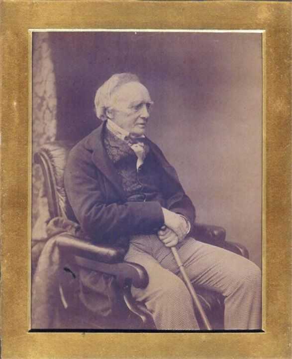 Finally found an original picture of Lord William Robert Keith Douglas. This image has easily left copyright having been taken no later than 1859.